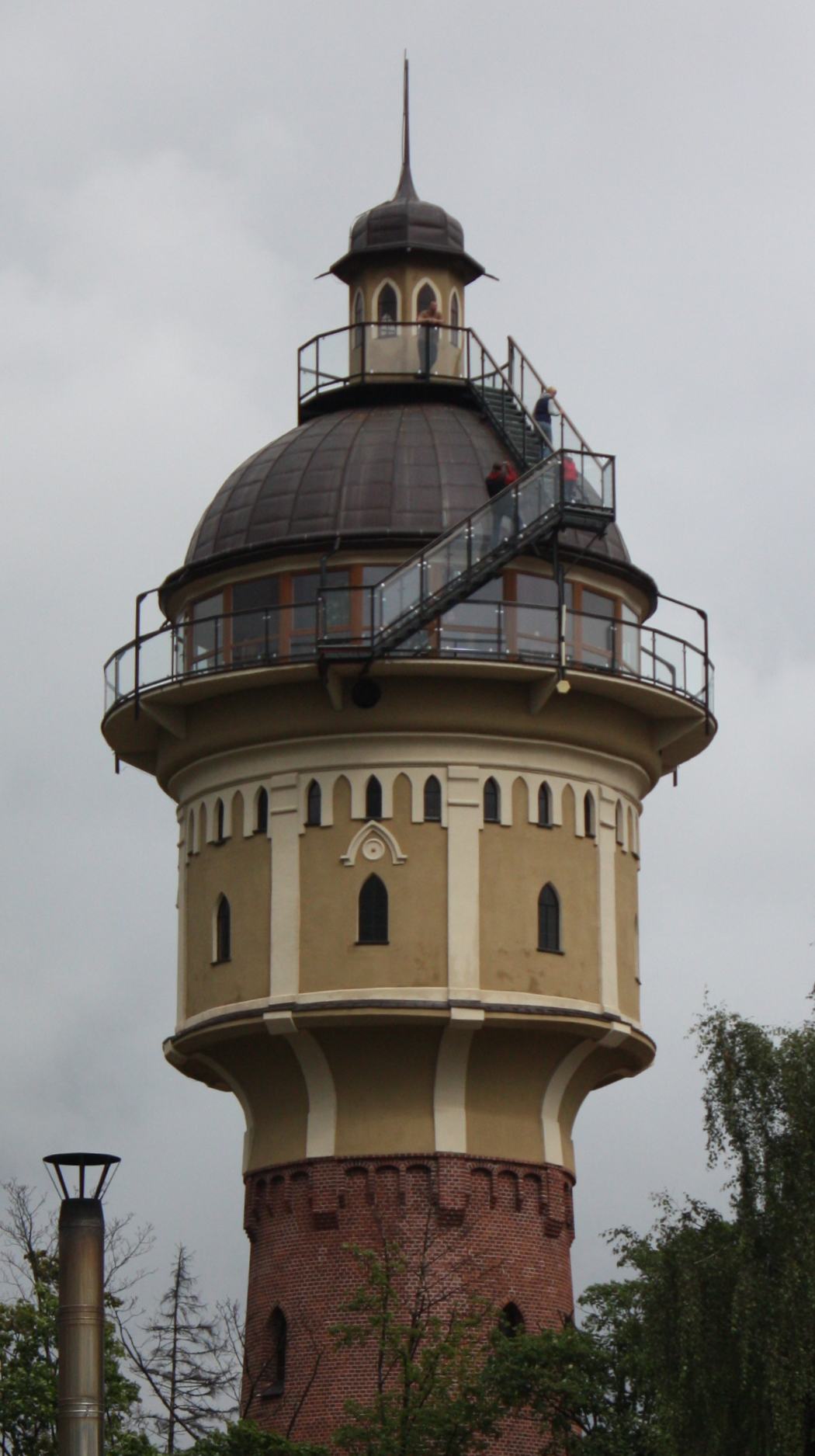 This photo of Warmian-Masurian Voivodeship was taken during Wikiexpedition 2012 set up by Wikimedia Polska Association. You can see all photographs in category Wikiekspedycja 2012. The making of this document was supported by Wikimedia Polska.